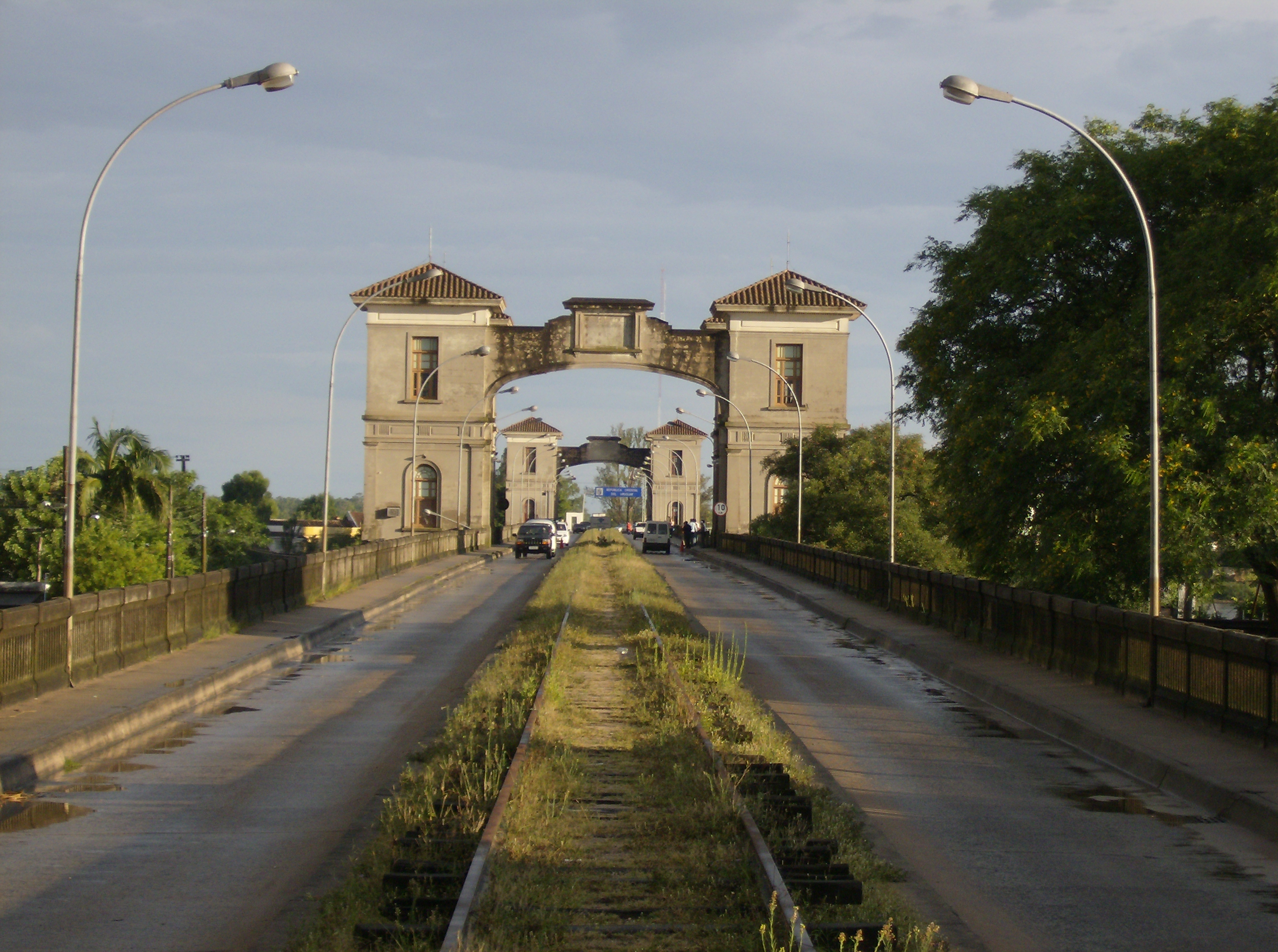 Border between Brazil (city of Jaguarão) and Uruguay (city of Río Branco), on the Brazilian side